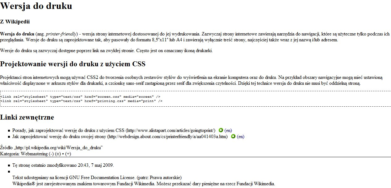 Screenshot of printable version of an articlie in Polish Wikipedia.